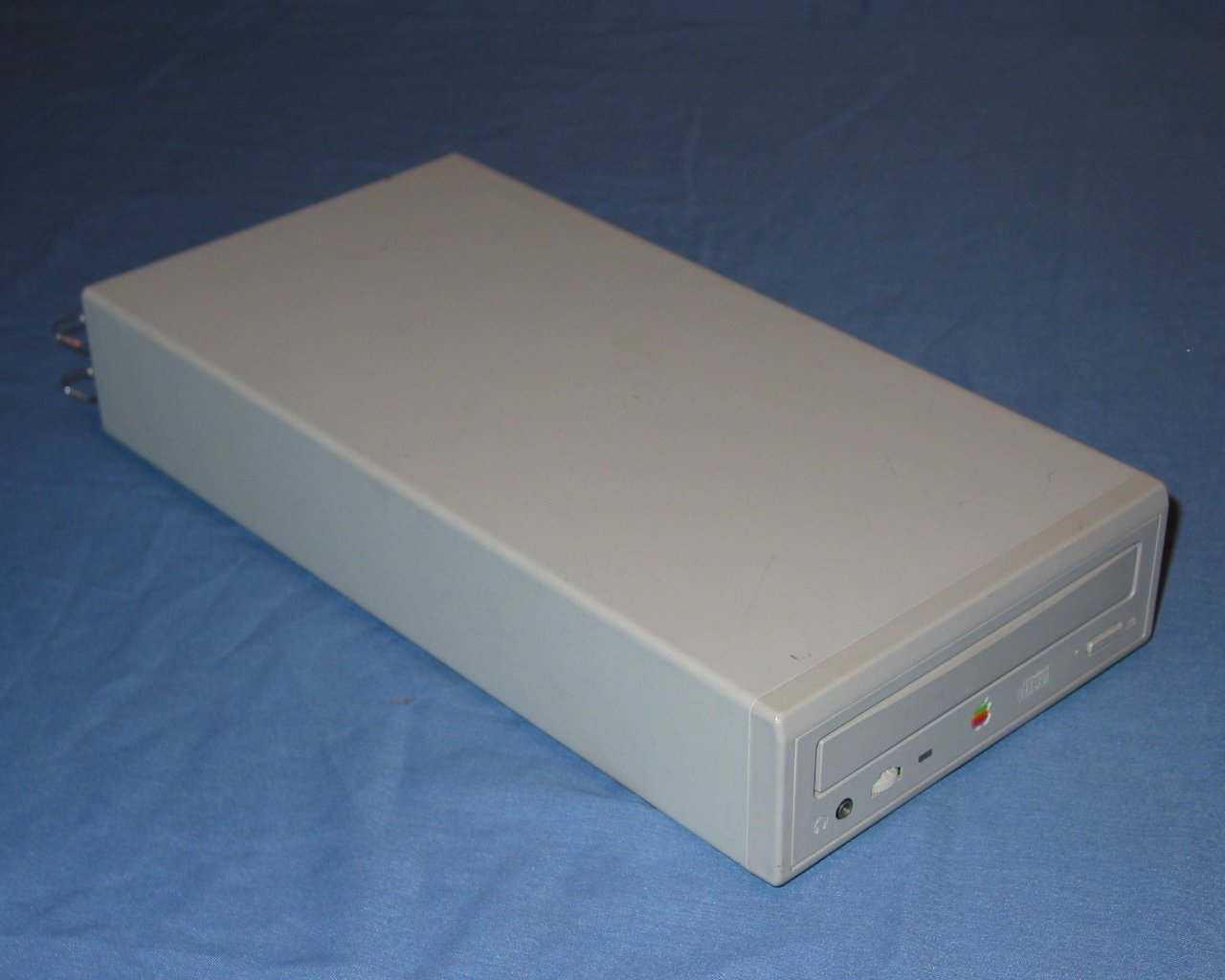 Photo of an AppleCD 300e Plus, an external SCSI CD-ROM drive manufactured by Apple Computer